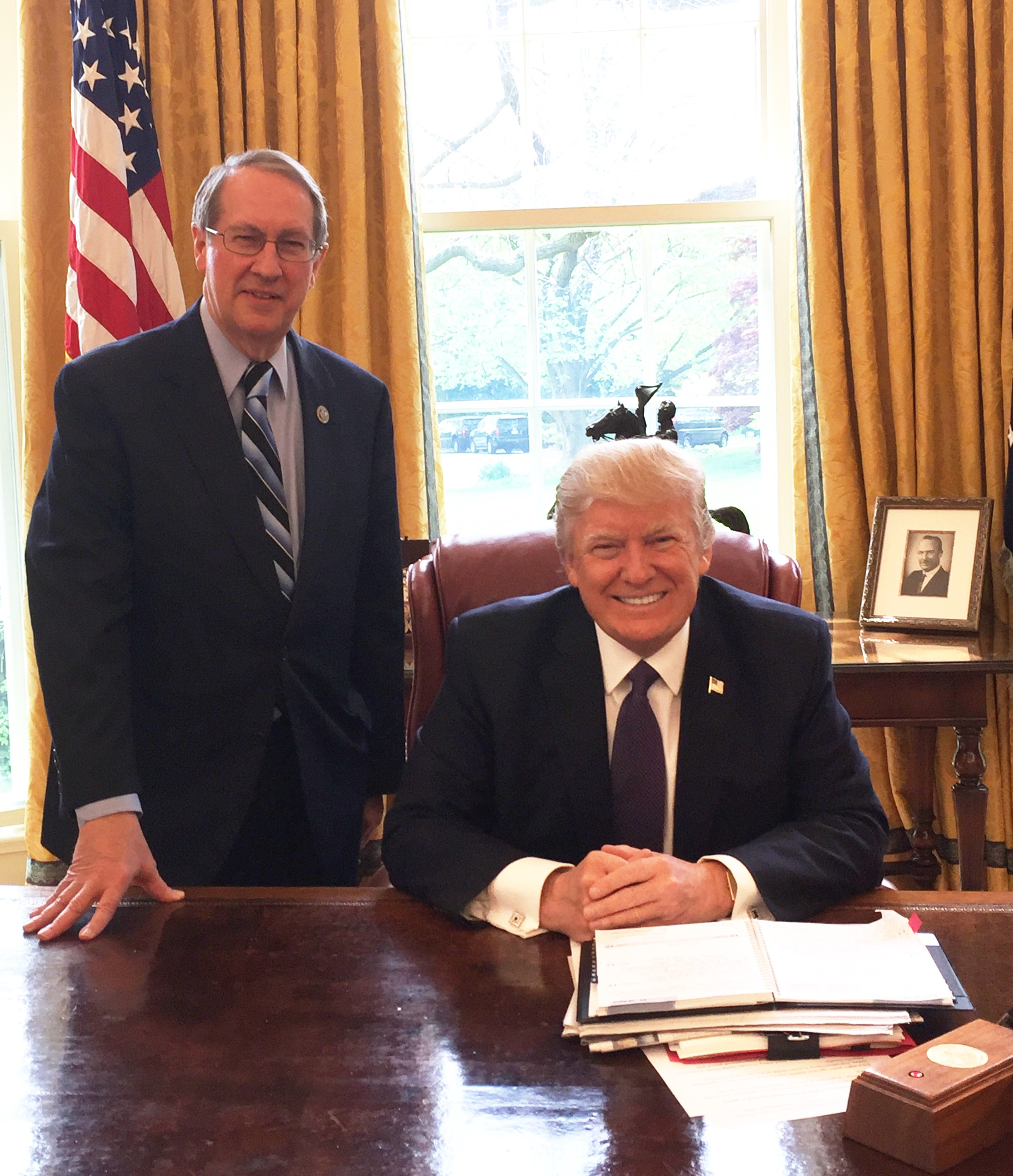 Glad that I had the opportunity to meet with @POTUS today to discuss some of @HouseJudiciary's priorities this Congress.